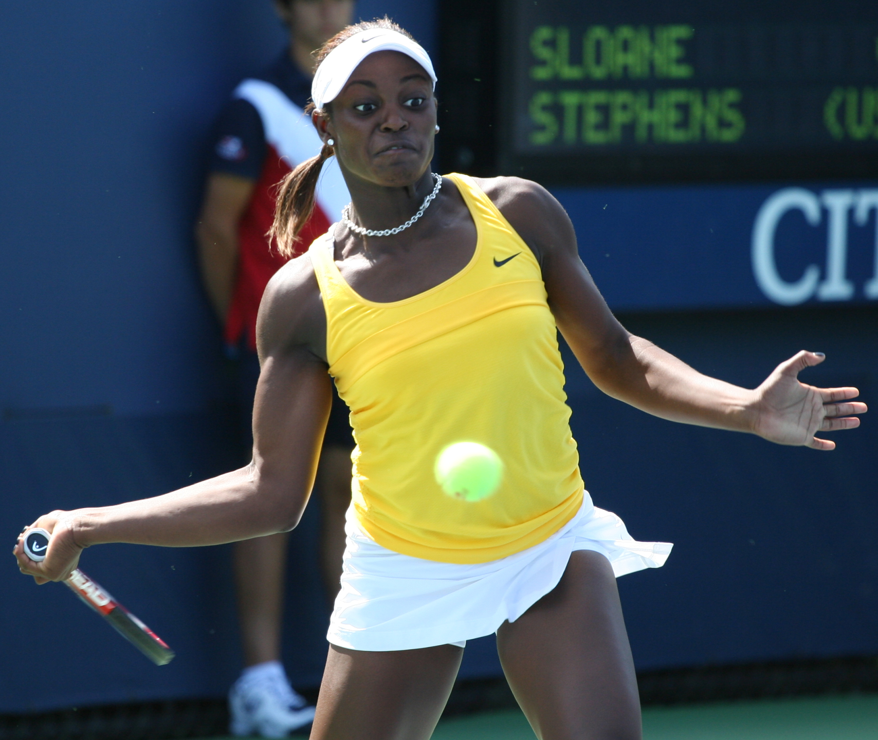 U.S. Open Juniors Sunday, Sept. 6, 2009